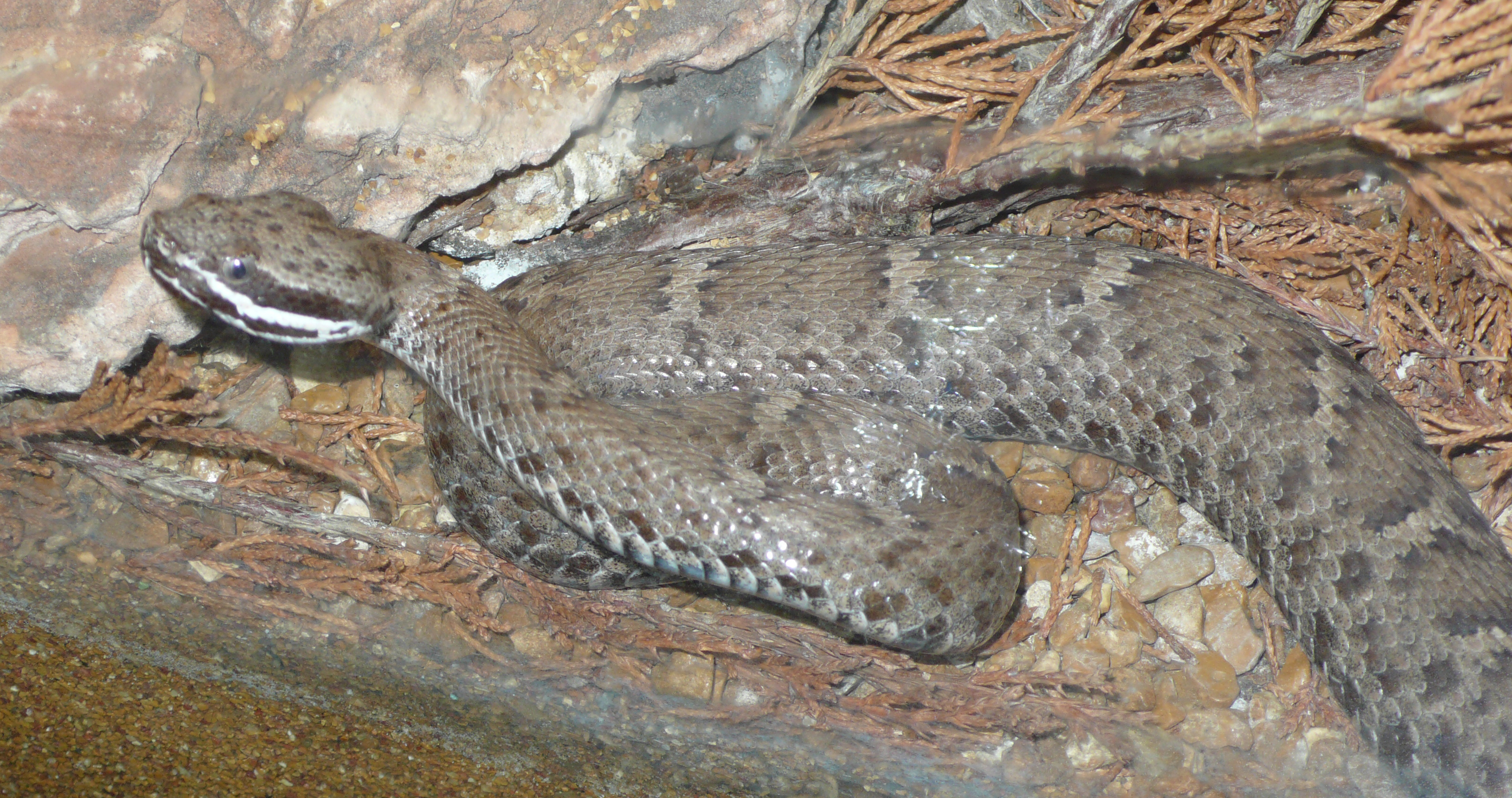 Arizona ridgenosed rattlesnake (Crotalus willardi willardi)